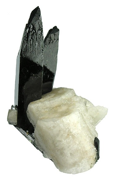 Aegirine, Feldspar Locality: Mt Malosa, Zomba District, Malawi (Locality at ) Size: 3.2 x 2.9 x 1.6 cm. This specimen features a pair of “rabbit’s ear” style aegirine crystals with excellent “wet” luster and very sharp faces. To top it off the crystals are sitting along the side of a group of off-white, lustrous Microcline crystals.